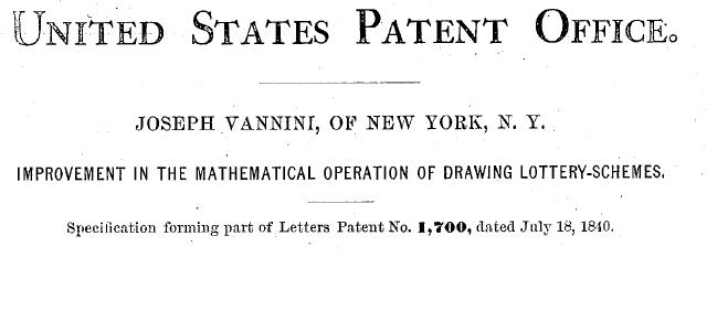 US patent 1700 header